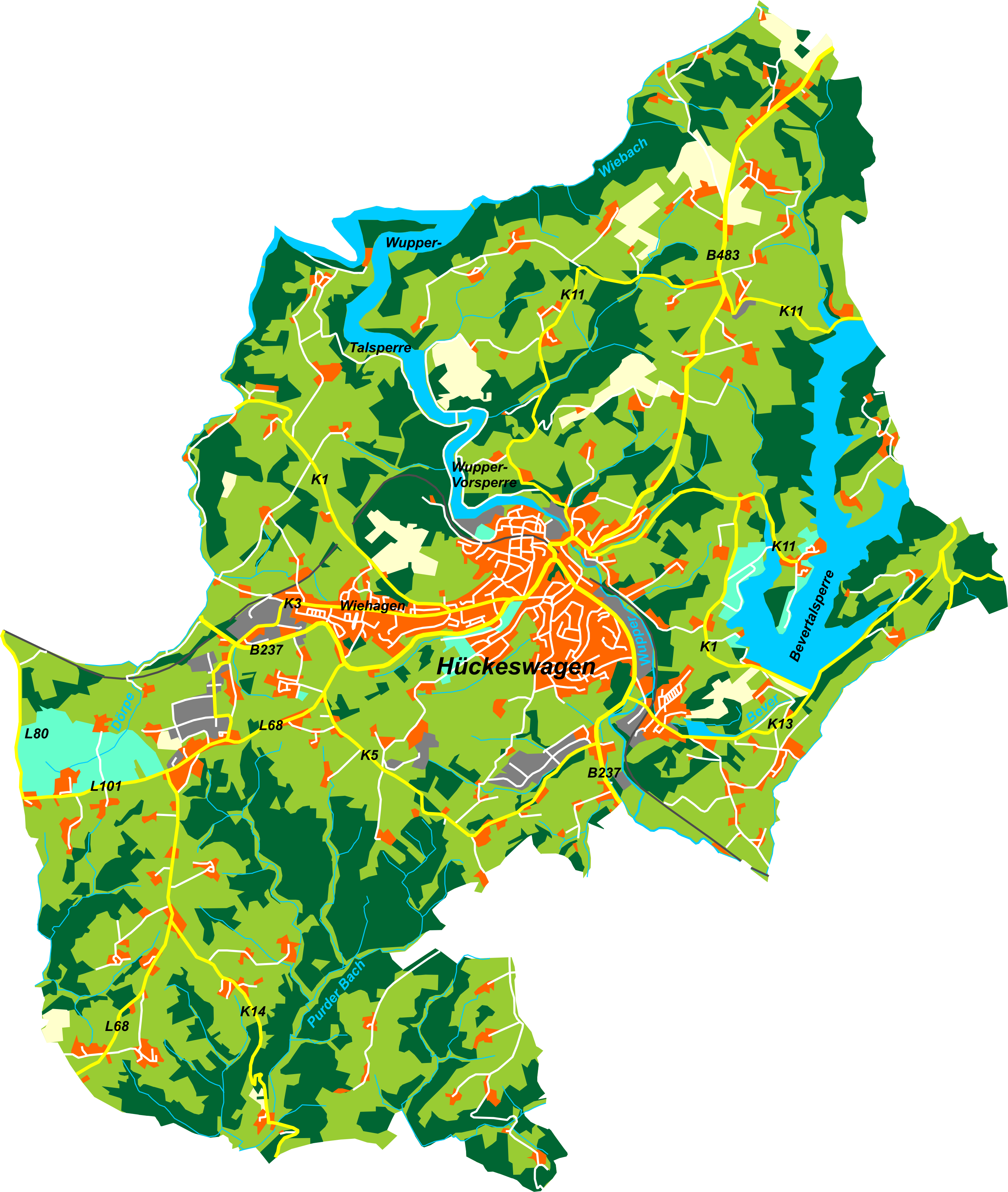 Map of Hückeswagen, Germany